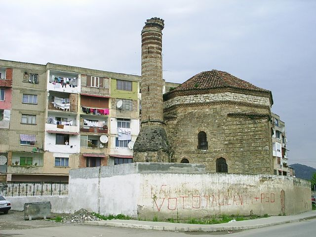 City of Elbasan, Albania: Naziresha Mosque